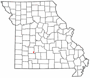 Modified from a map on Wikipedia.